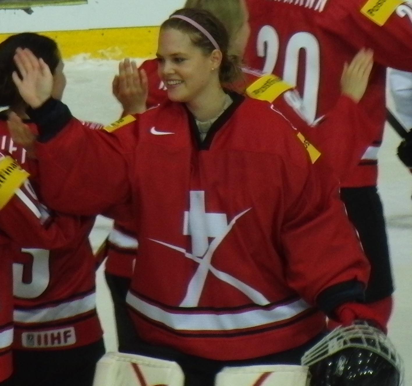 Florence Schelling at the women-ice hockey-WC 2011 in Winterthur after the game against Finnland.